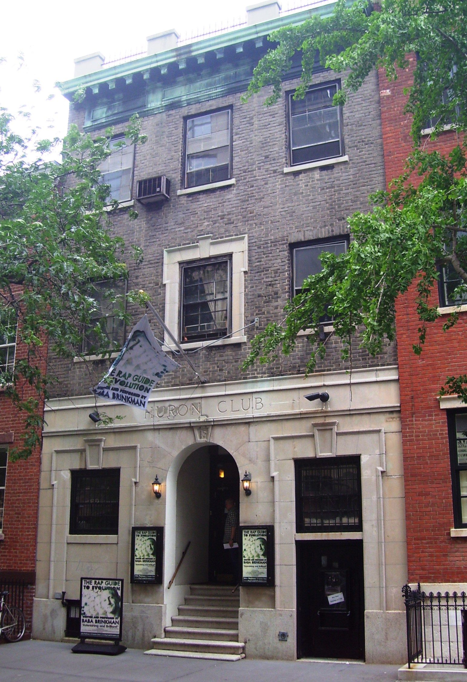 The SoHo Playhouse in the Huron Club Building at 15 Vandam Street between Sixth Avenue and Varick Street in the South Village section of the Greenwich Village neighborhood of Manhattan, New York City, was a meeting place and club for the Democratic Party, including, at the turn of the 19th Century, Tammany Hall. It was converted into a theatre in the 1920s, and in the 1960s was known as the "Village South", which was home to Edward Albee's Playwrights Unit Workshop. Today the building includes a 199-seat off-Broadway theatre, the SoHo Playhouse, and a 55-seat bar and cabaret space called the "Huron Club". The building is located within the Charlton - King - Vandam Historic District. (Sources: "NYCLPC Charlton - King - Vandam Designation Report" and "About Us" on the SoHo Playhouse website)